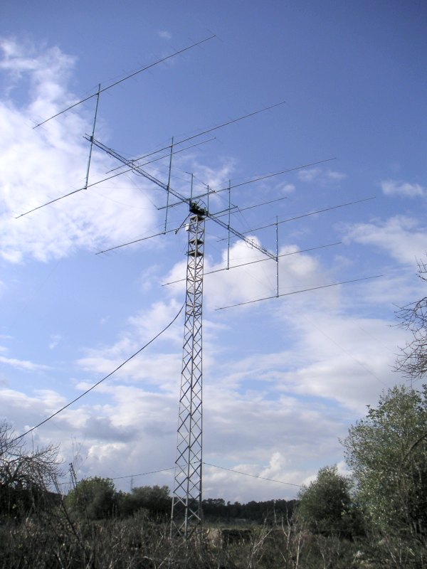 A high gain amateur radio antenna used for Moonbounce or Earth–Moon–Earth communication (EME) on 144 MHz by EA6VQ. In this technique two amateur radio operators on different sides of the world talk to each other by reflecting radio waves off the Moon. The antenna is an array of eight Yagi antennas fed in phase.